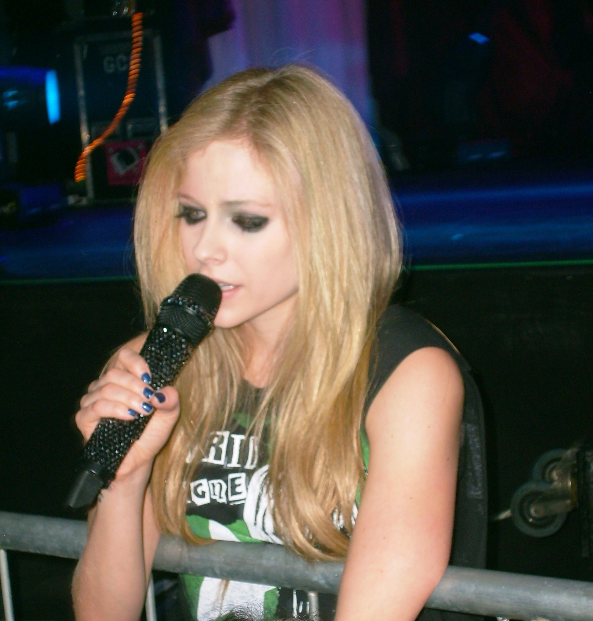 Avril Lavigne in São Paulo, Brazil. The Black Star Tour in July 27 2011.